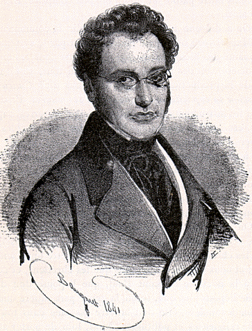 Joseph Lebeau, Belgian minister